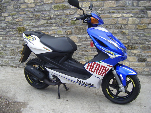 A 2010 Yamaha Aerox limited edition Rossi Replica